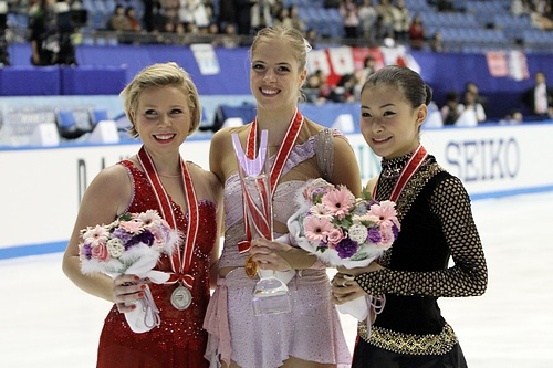 Rachael Flatt (2), Carolina Kostner (1) and Kanako Murakami (3) at the 2010 NHK Trophy.